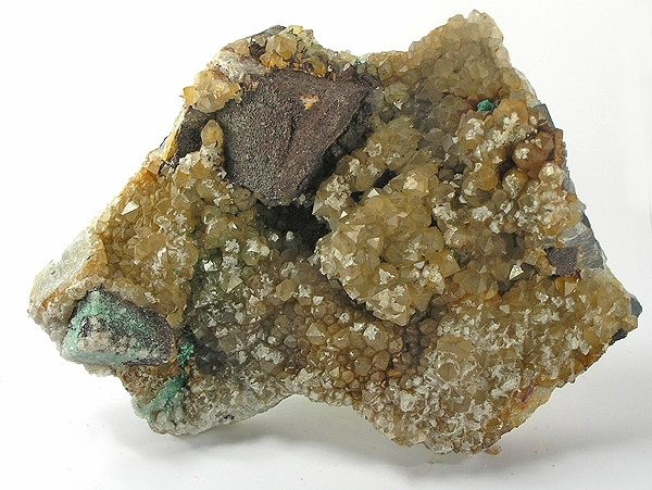 Galena, Quartz Locality: Mex-Tex Mine, Bingham, Hansonburg District, Socorro County, New Mexico, USA (Locality at ) Size: 18.9 x 14.5 x 4.3 cm. What you see here on this old-timer from the Mex-Tex, out of an old collection, is a very large cube (3.5 cm across) of galena with a coating of the lead oxide plattnerite on it. A smaller, similar cube is over towards the edge of the specimen. This is not common; it is a lot more typical to see a druse of cerussite (another lead mineral) than it is plattnerite, from this area. You can see traces of a copper mineral, likely brochantite or perhaps malachite, on and near the smaller cube (perhaps an alteration in progress). The quartz matrix makes an attractive backdrop to this significant New Mexico Galena crystal!